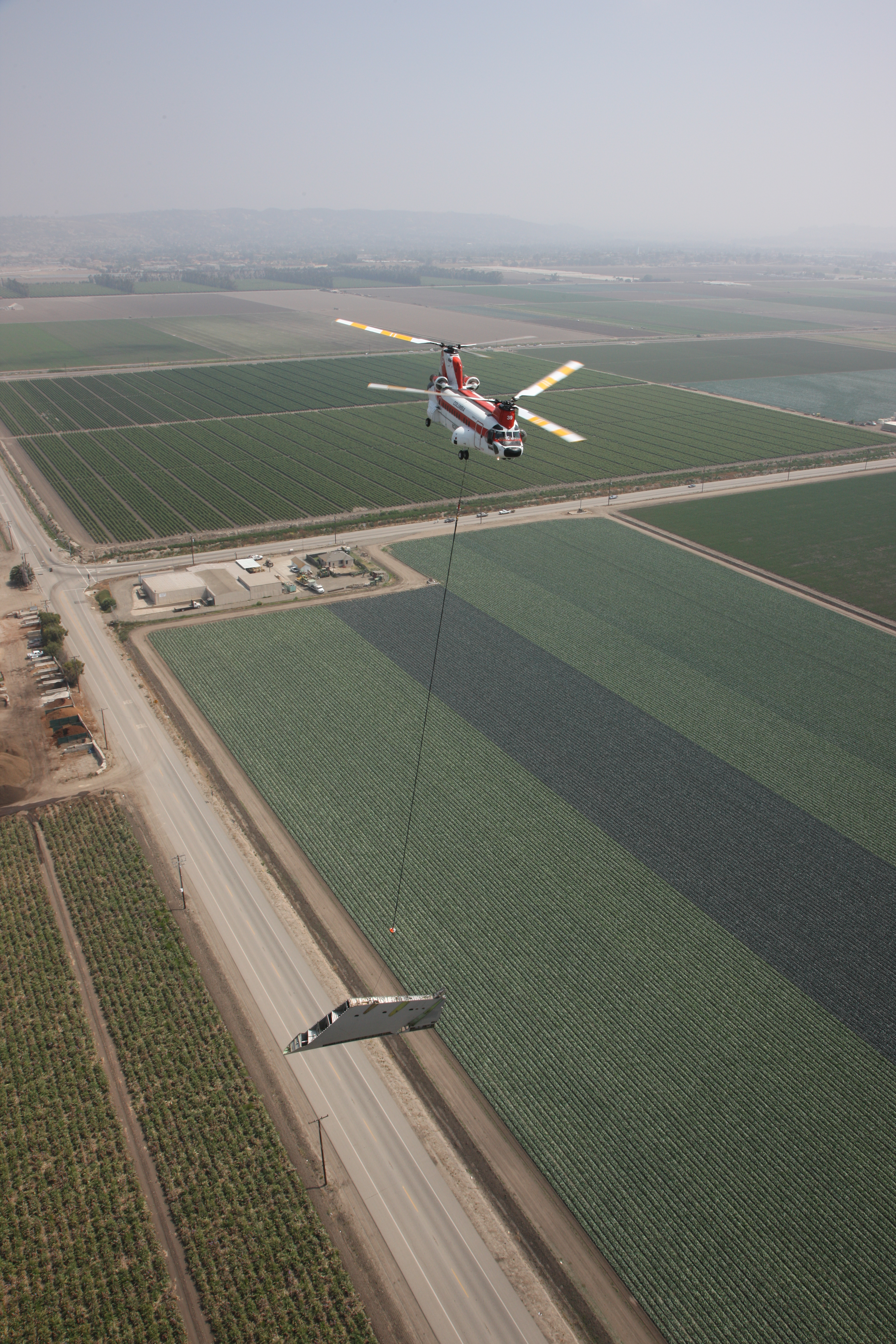 Boeing CH-47 Chinook Carrying Wing from Oxnard Airport